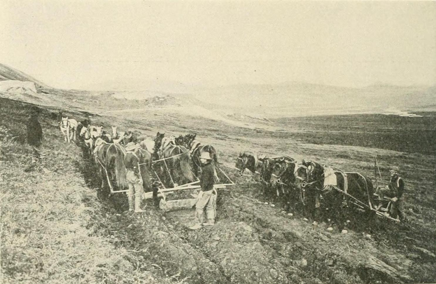 Men using Fresno scrapers and four-horse teams to build the Miocene ditch, Seward peninsula, Alasaka